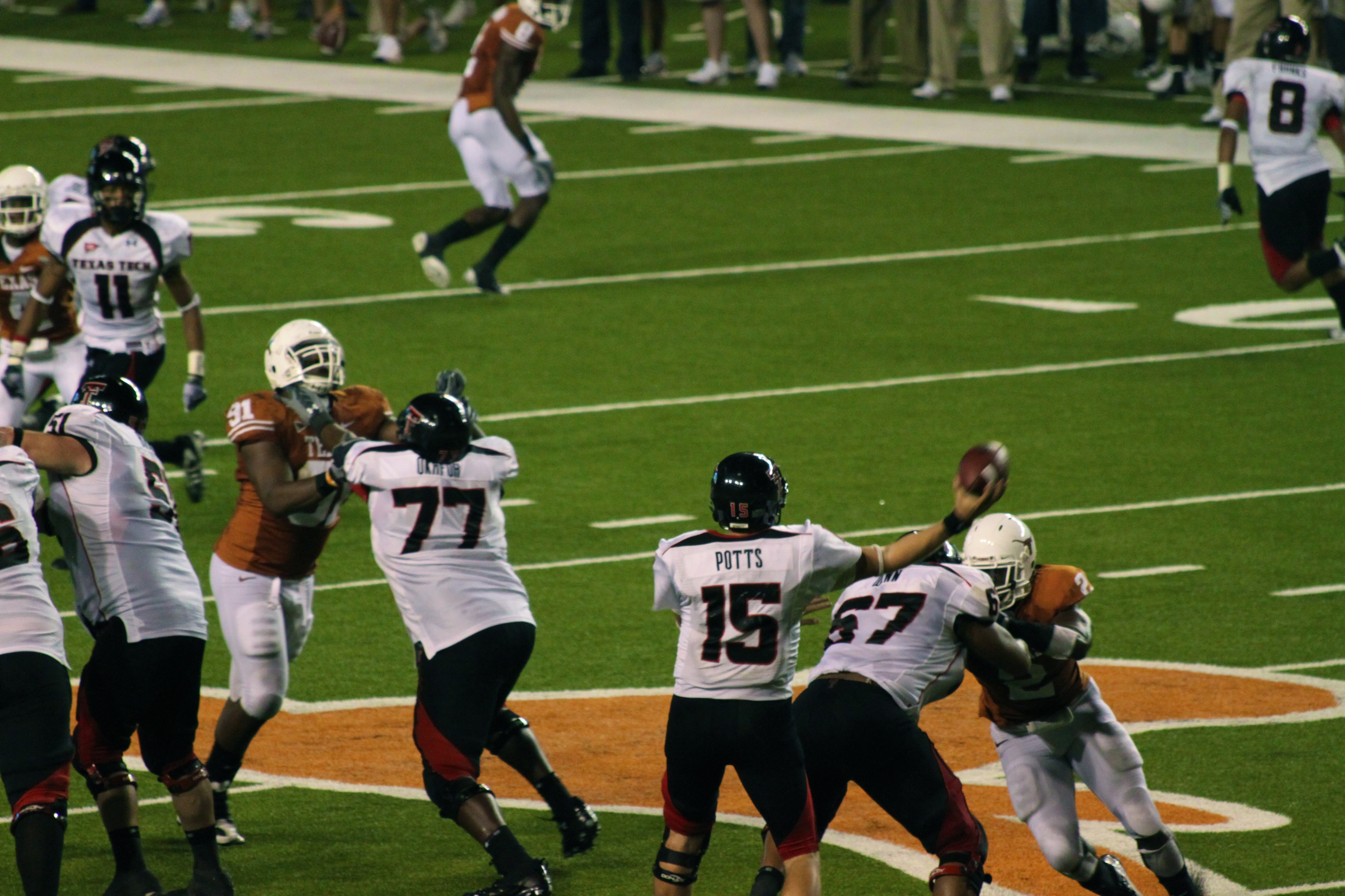 Taylor Potts throws a pass during the 2009 Texas Tech vs. Texas football game in Austin, Texas.